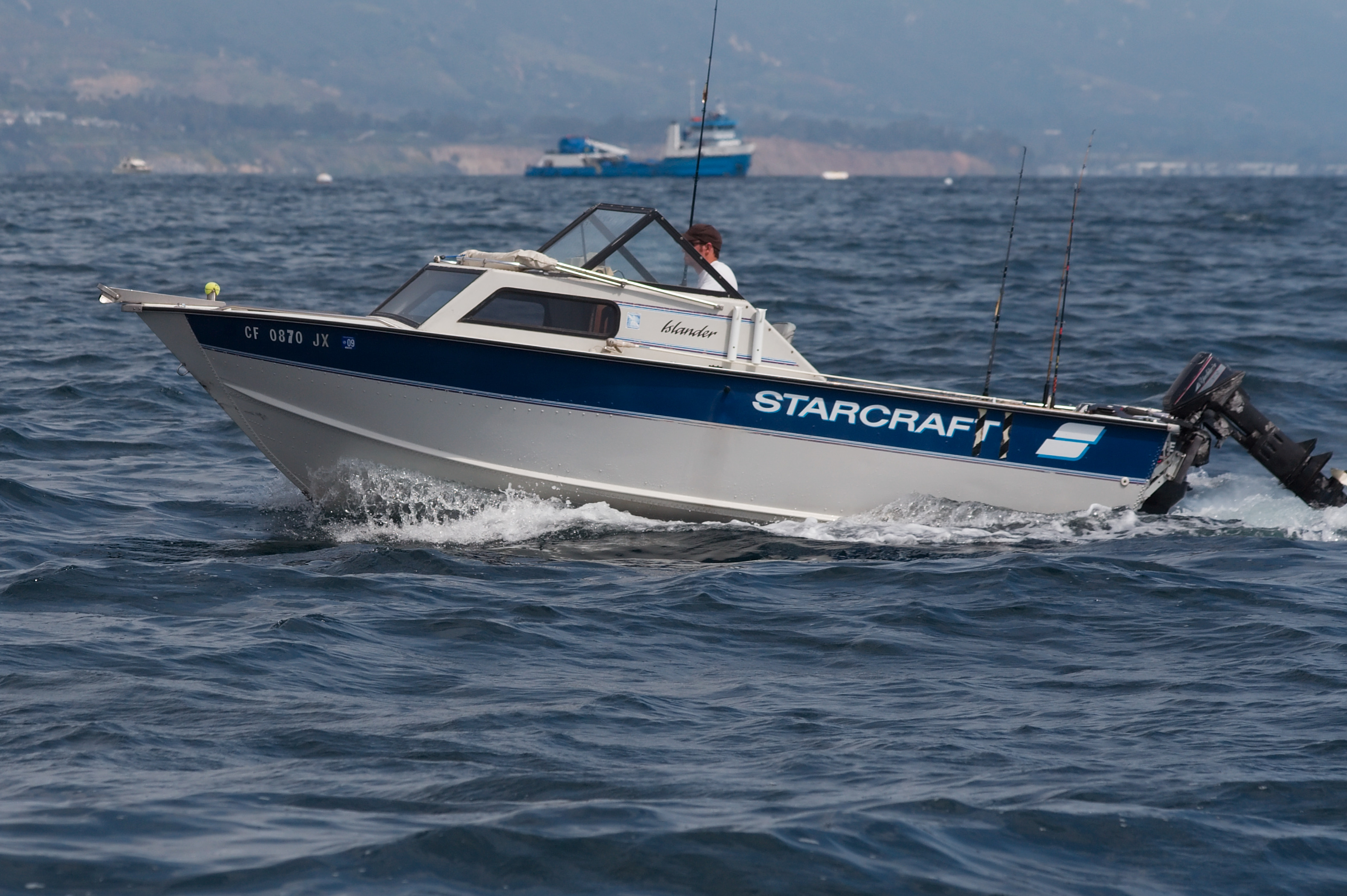 The Starcraft speed-boat, Santa Barbara, California